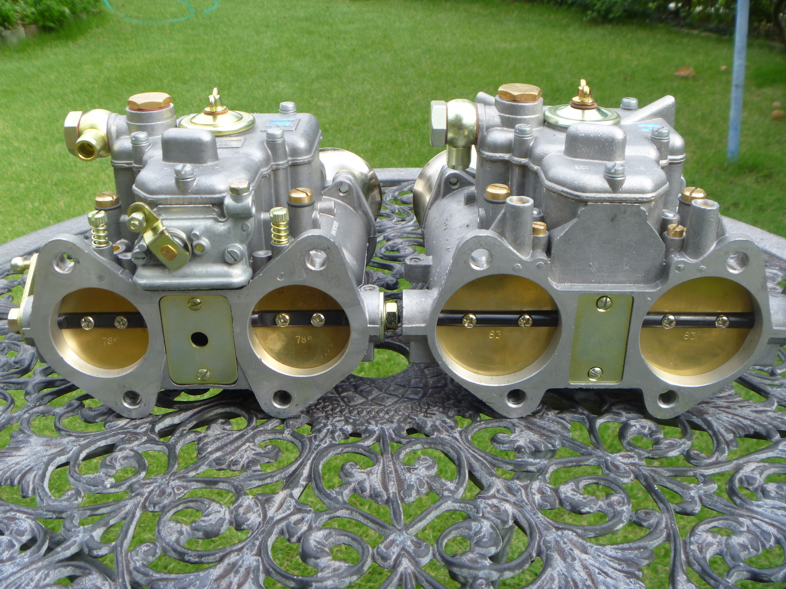 Weber45DCOE9&55DCO throttle plates